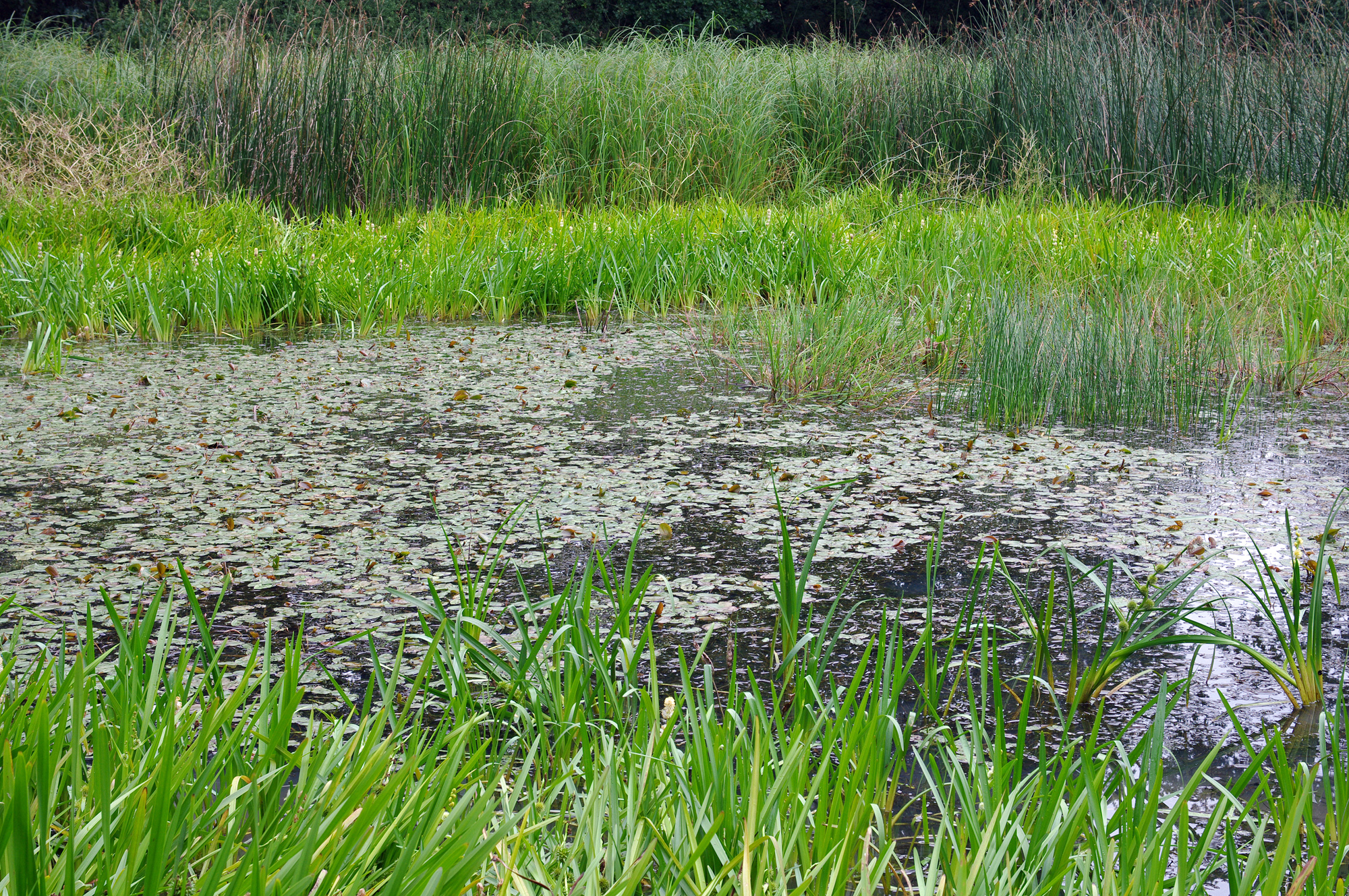 Natural habitat of a large population of the European Medicinal Leech, Hirudo medicinalis. The species prefers eutrophic, submerged weedy waters (dominant plants in the open water here: Potamogeton natans, Potamogeton acutifolius).